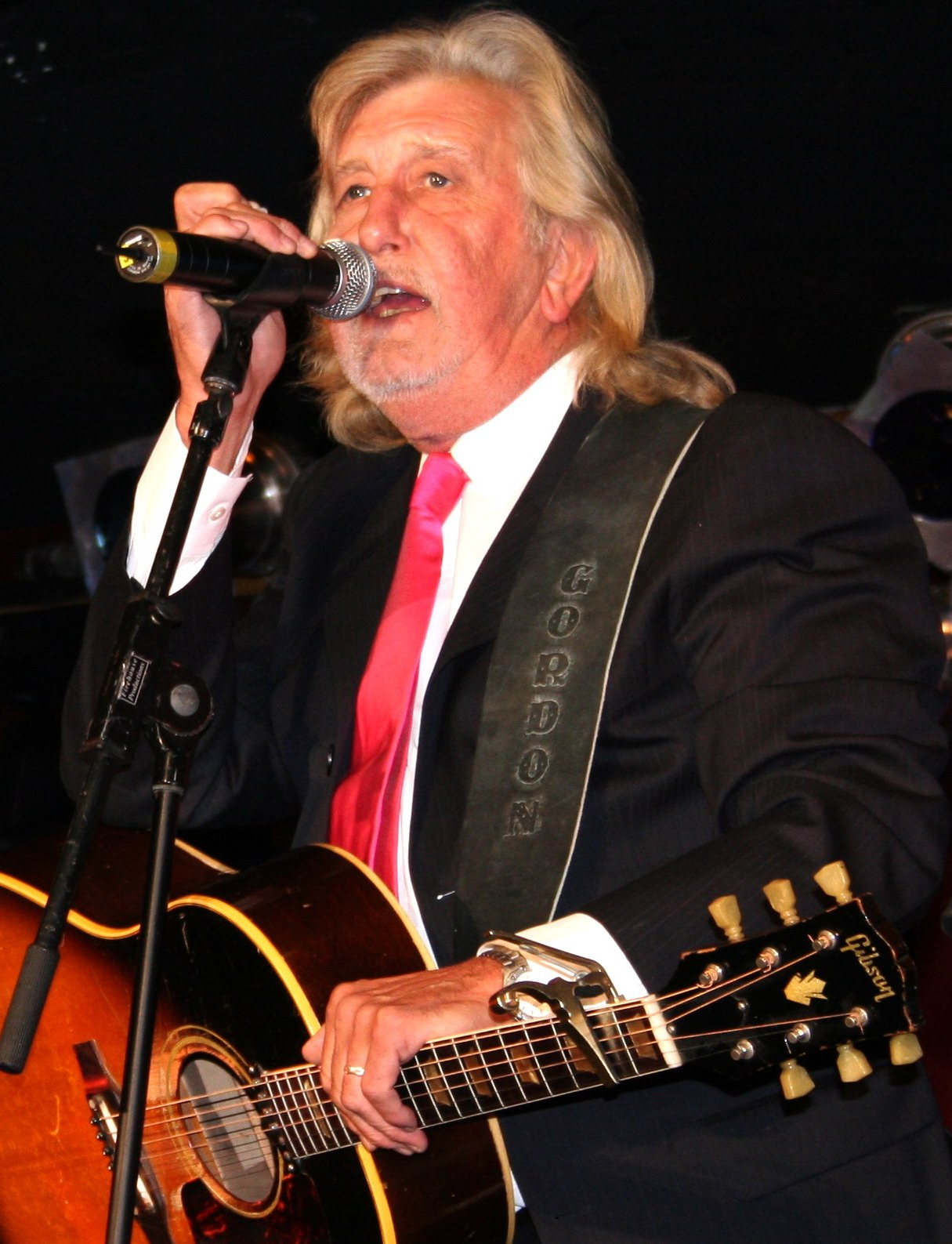 Gordon Waller performing at a 2005 benefit for Mike Smith of the Dave Clark Five, who had been paralyzed in a fall at his home.